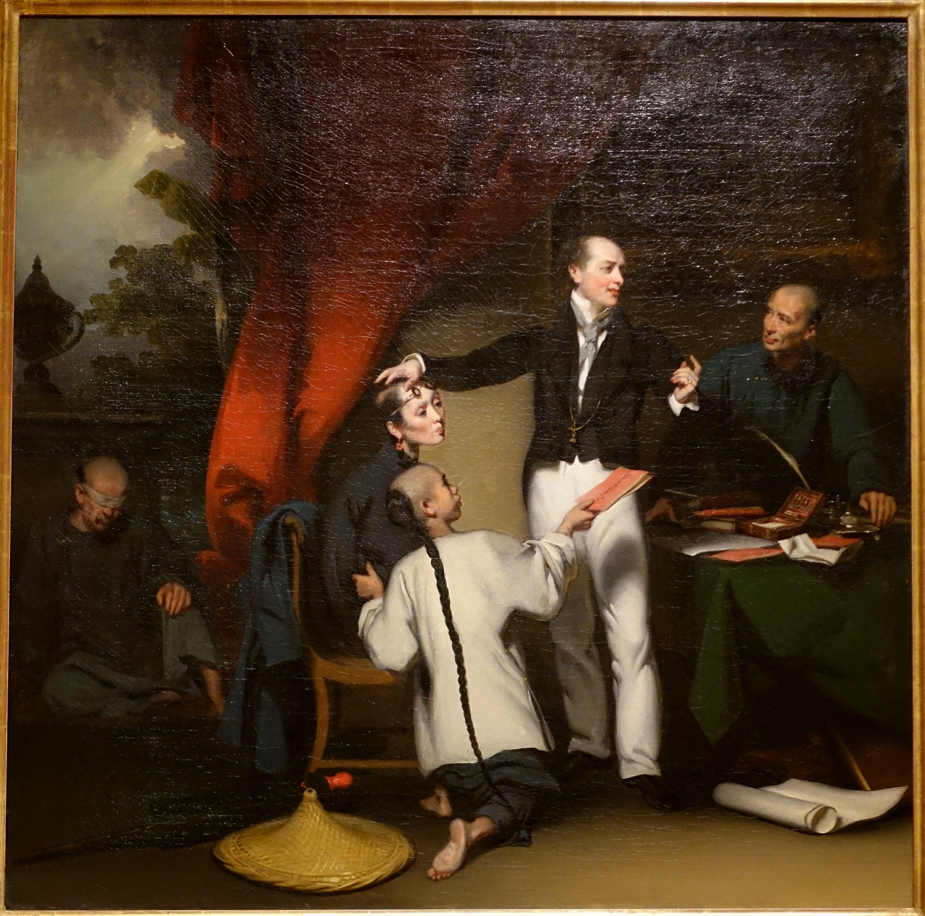 Exhibit in the Peabody Essex Museum - Salem, Massachusetts, USA.